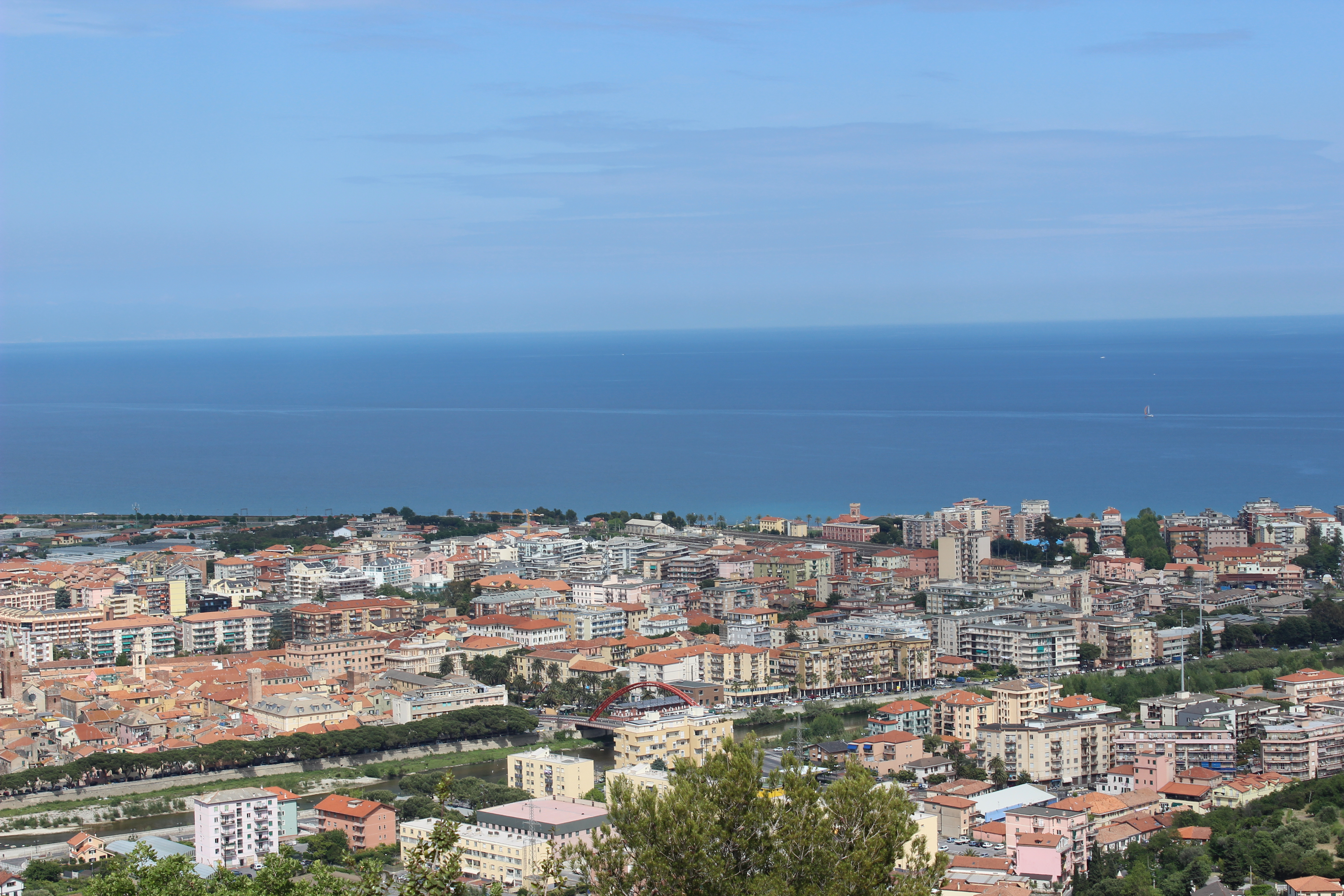 This is the city of Albenga view by the mountain